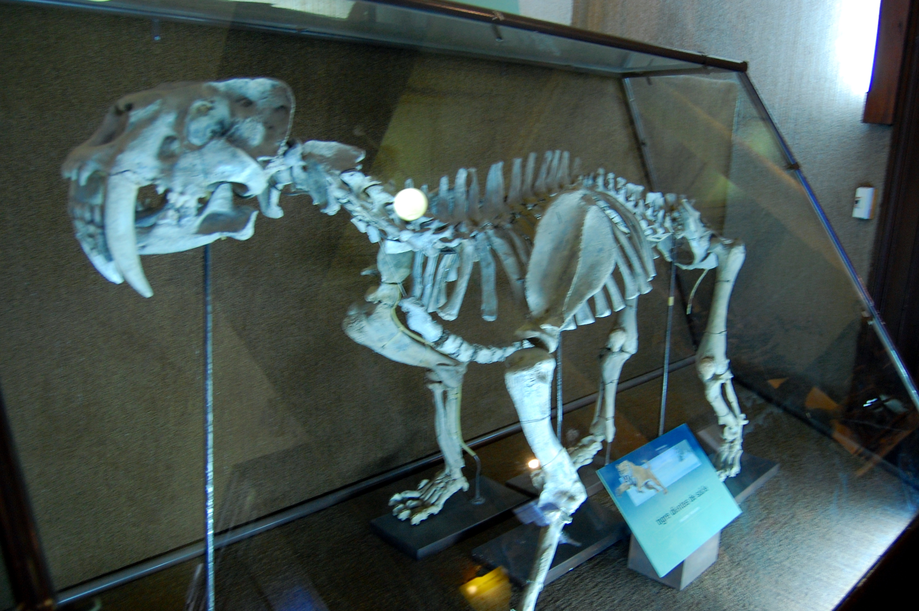 Picture of the skeleton of a sabre-toothed cat (Smilodon populator) in the Museum of Natural History of La Plata, Argentina.